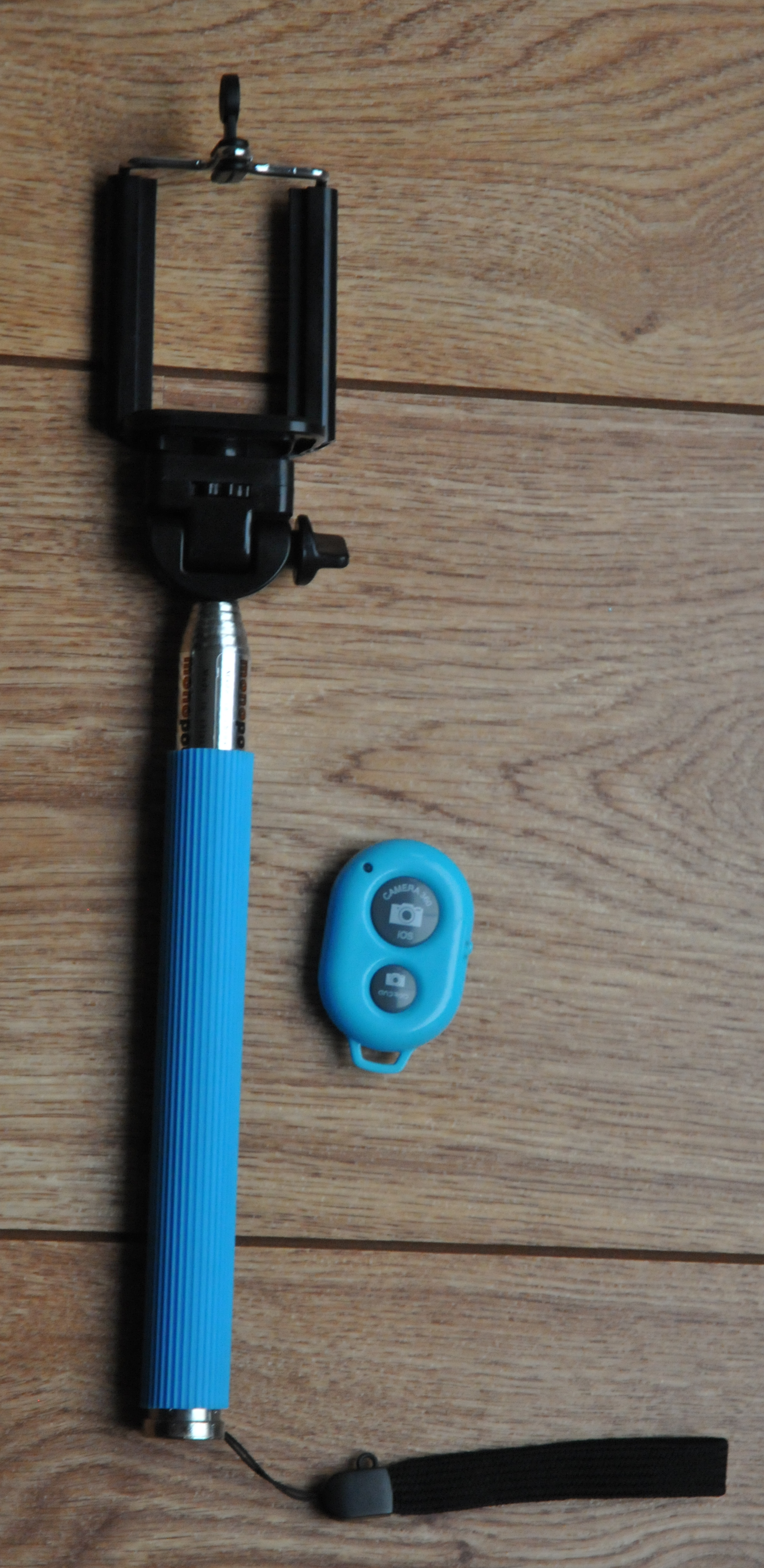 Portable Selfie Stick